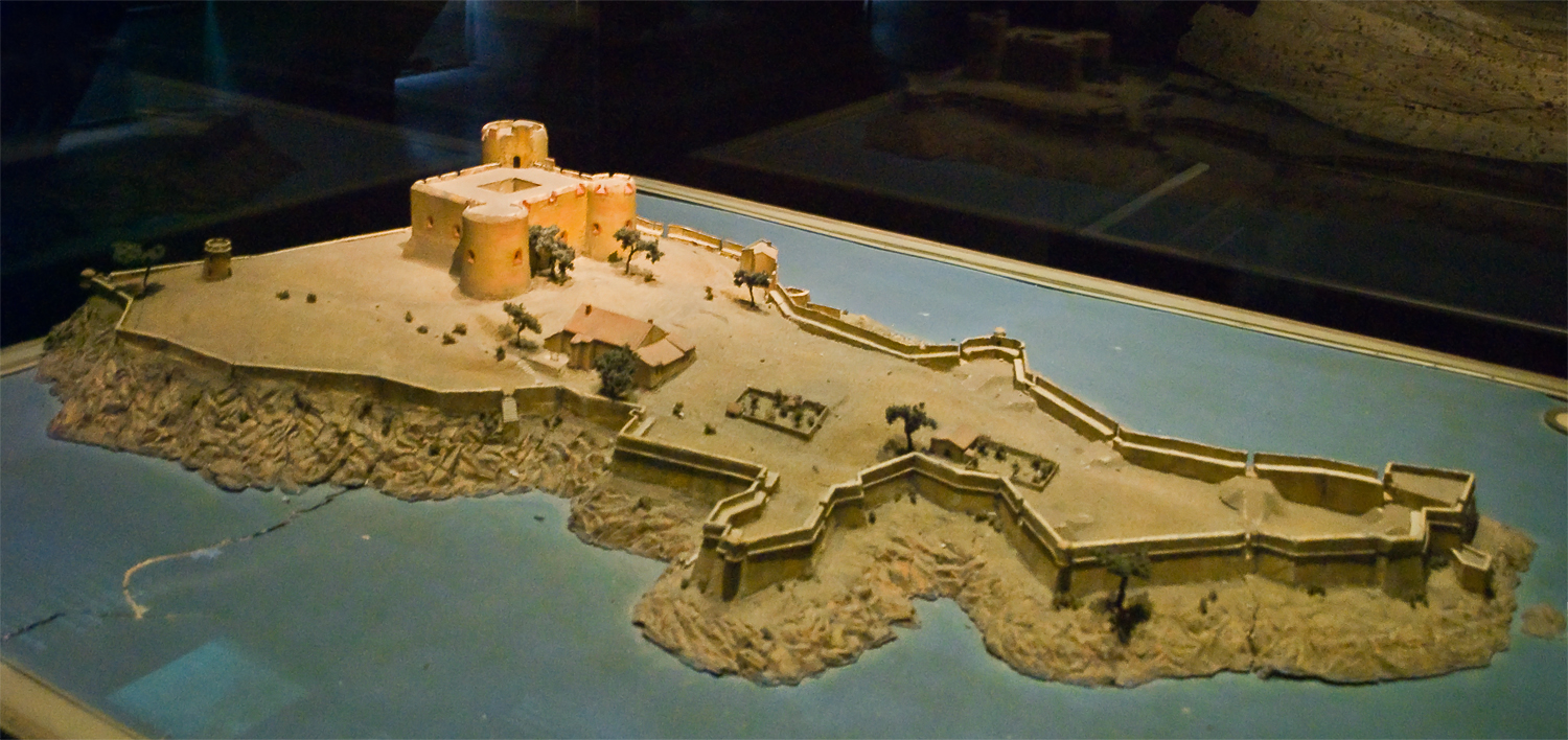 Scale model of the 'Château d'If' in the Bay of Marseille (southeastern France). This scale model dated from 1681 is exhibited in the 'Musée des plans-reliefs' (hôtel des Invalides, Paris)